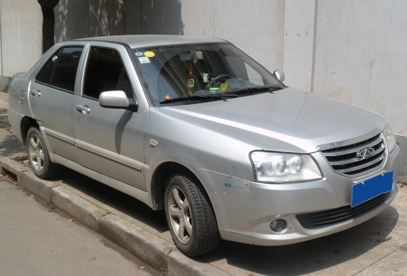 Chery Cowin 2 facelift photographed in Shanghai, China.